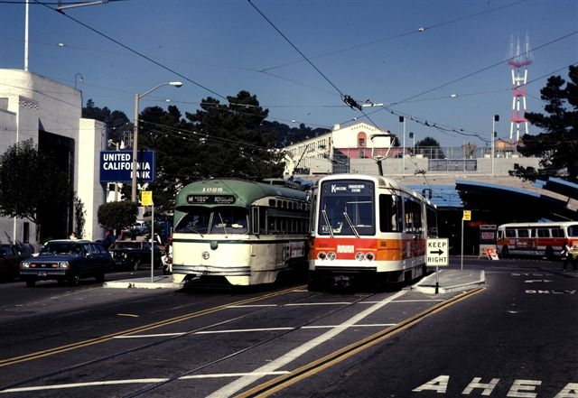 1025 and 1220 passing at West Portal Nov 1980